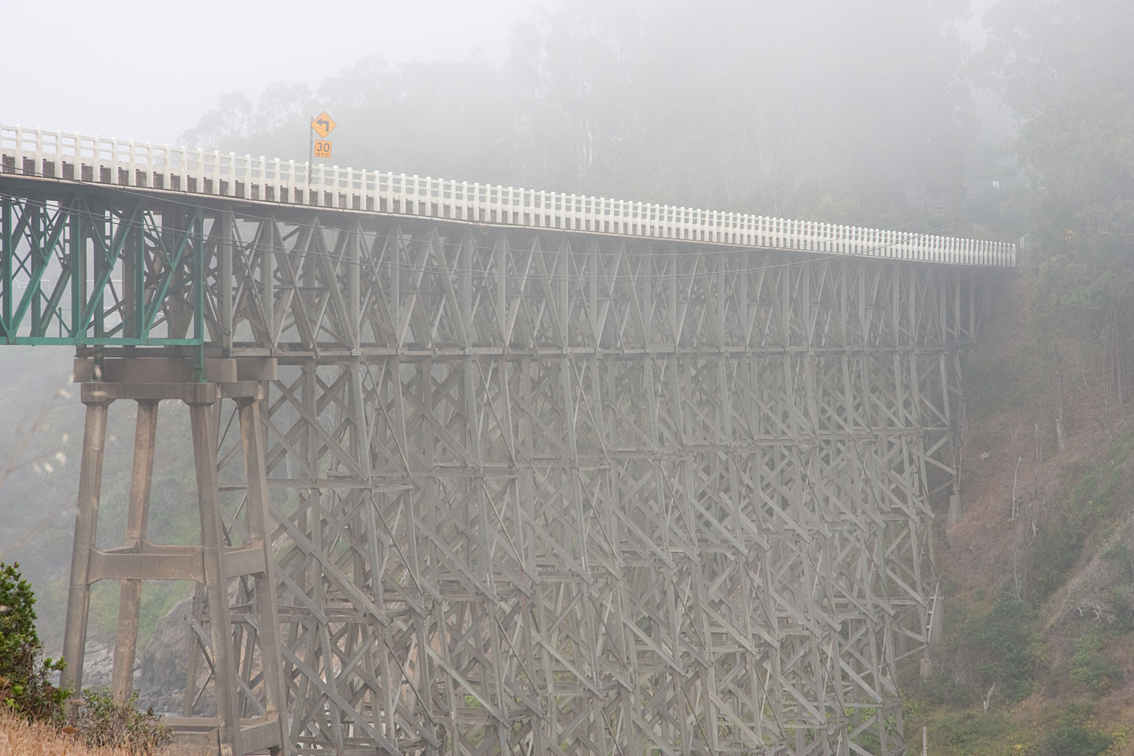 The Albion River Bridge, the last remaining wooden trestle bridge on California State Route 1. It was listed on the U.S. National Register of Historic Places in 2017.